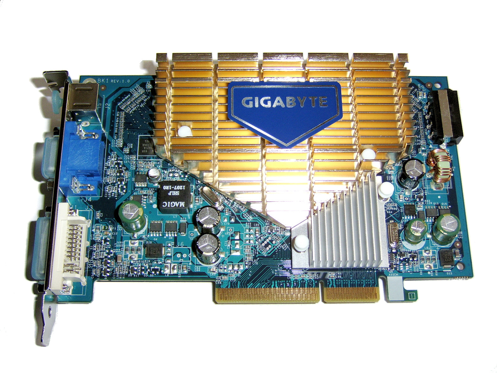 Gigabyte NVIDIA GeForce 7600 GS AGP 8x (256 MB)